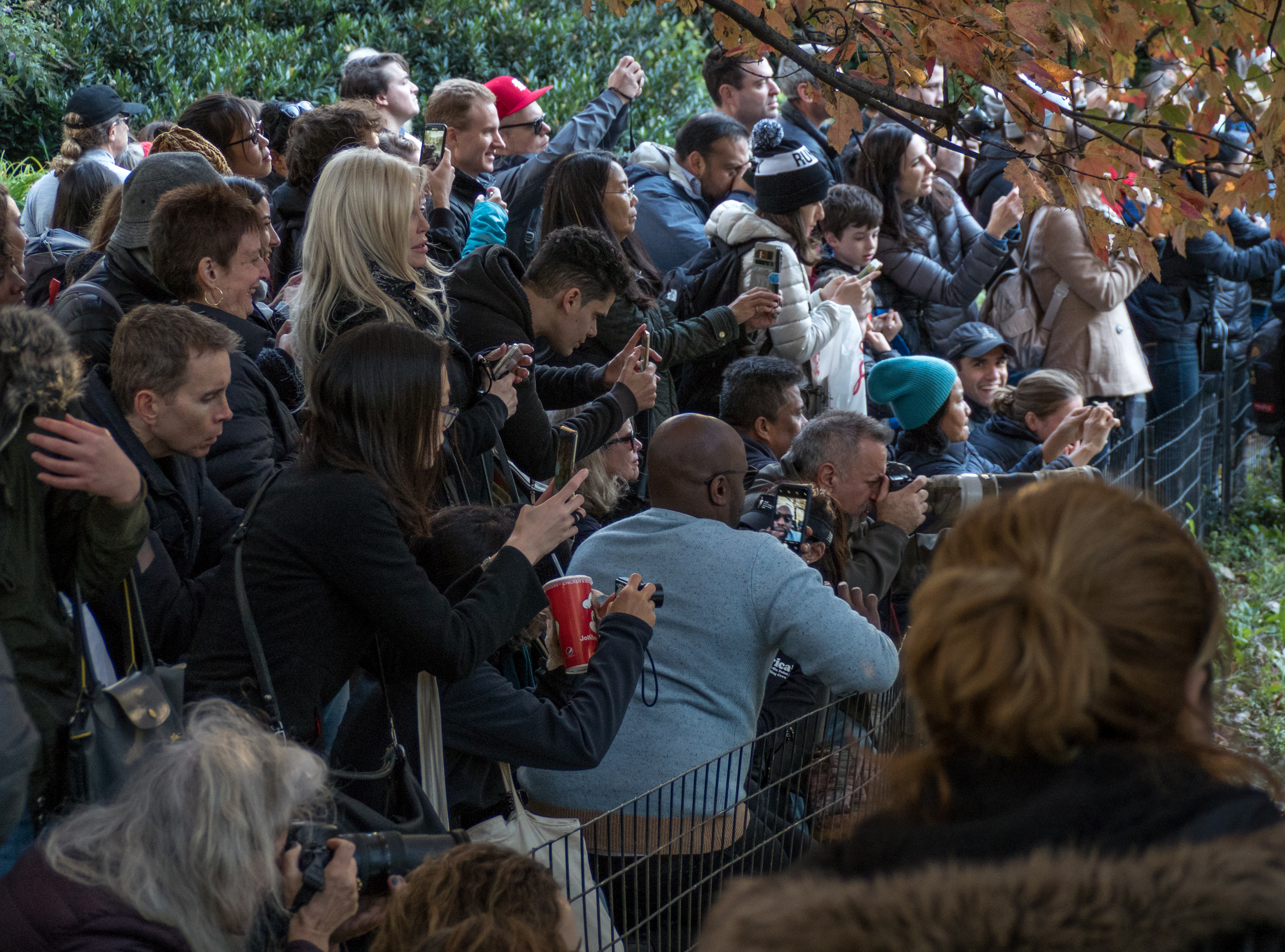 In October 2018, a Mandarin duck (Aix galericulata) appeared in Central Park in New York. There is no clear answer as to how it, a bird not typically seen on this side of the planet, managed to get here. A crowd formed by Central Park pond to see it.